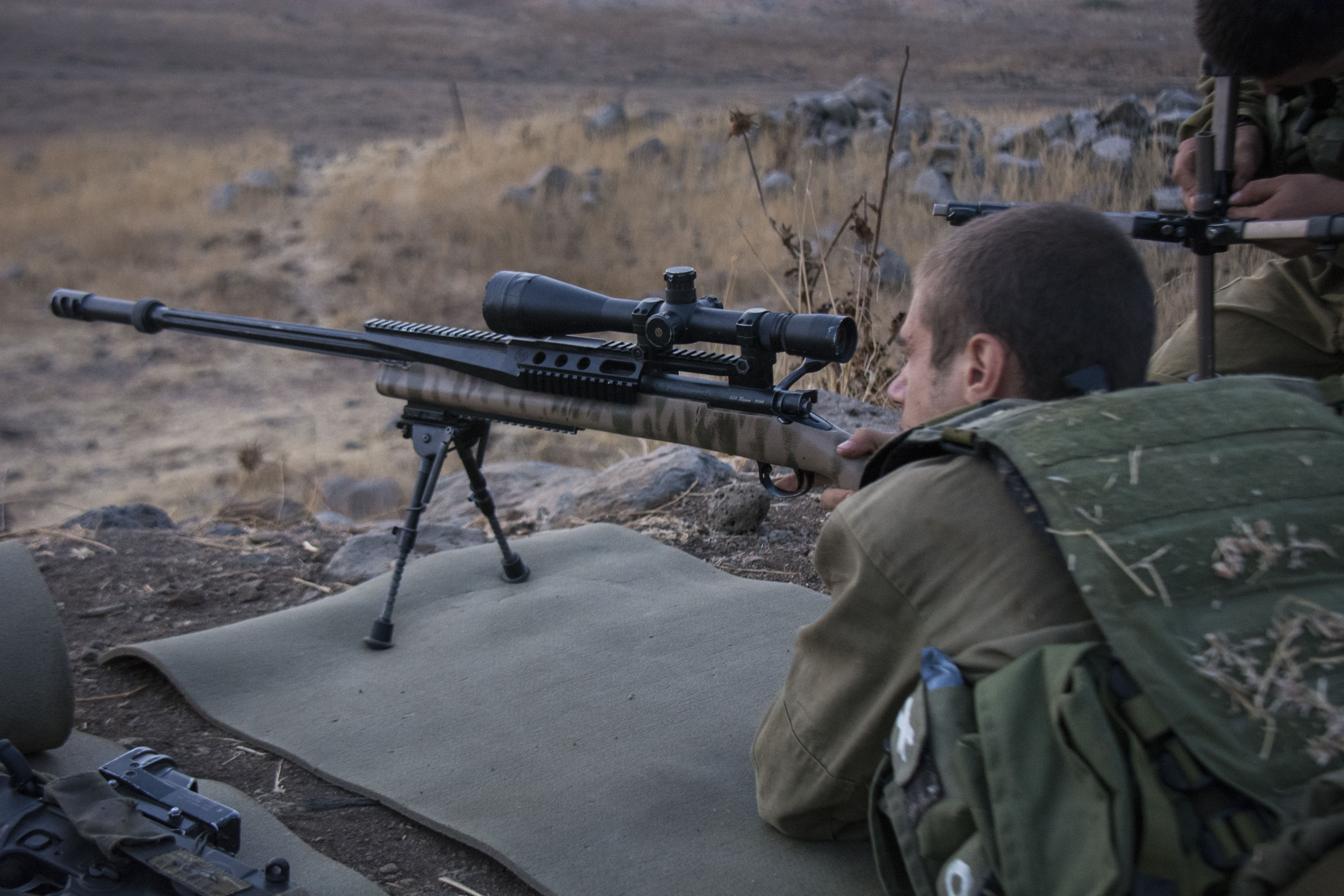 Givati Trains in Northern Israel. The Givati Brigade participated in an advanced training exercise focused on readiness and preparedness for any scenario they may encounter.